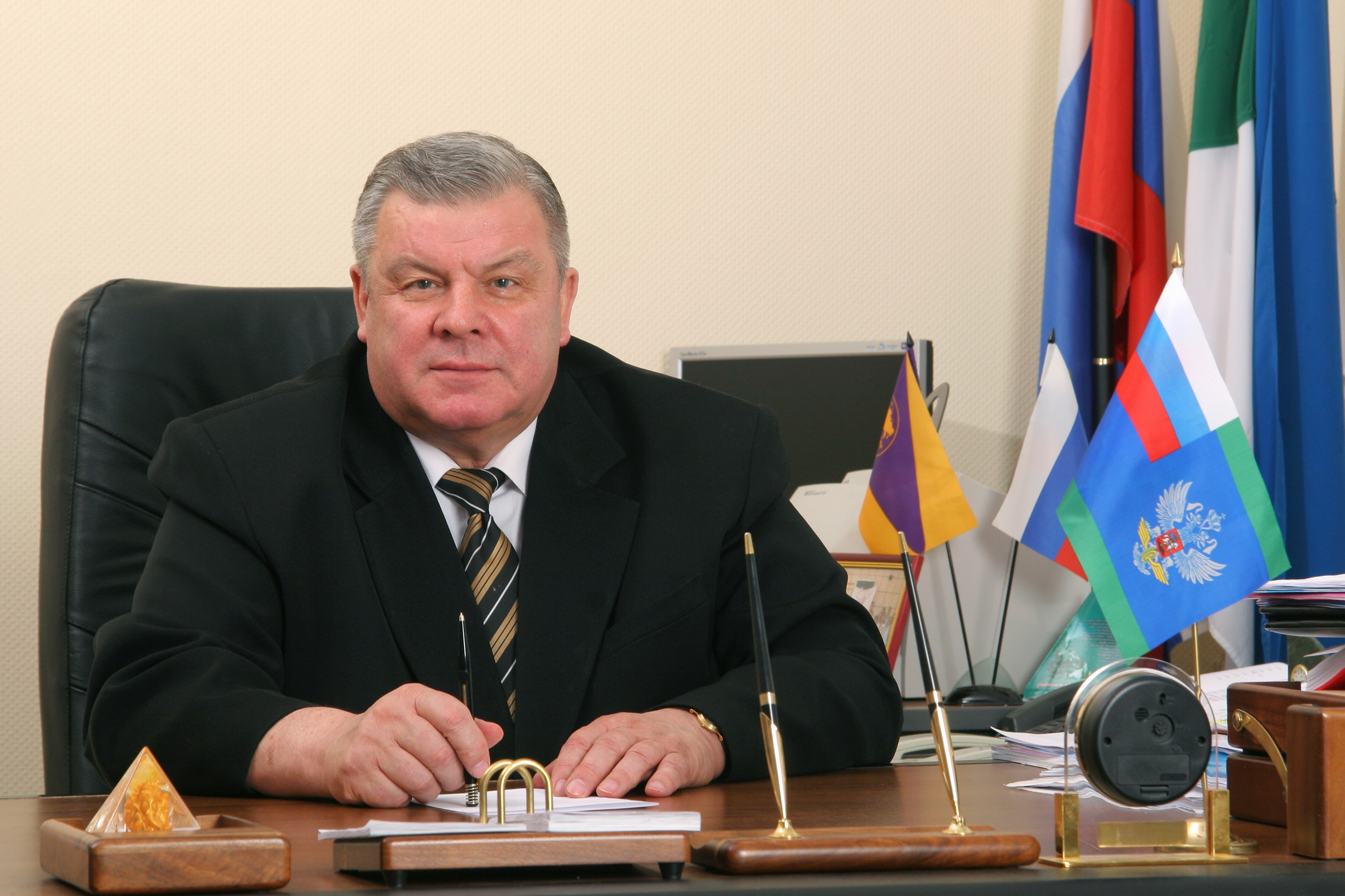 Виктор Григорьевич Григоренко